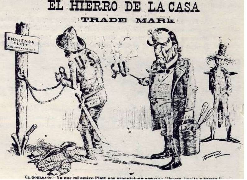 Caricature of the beginning of the twentieth century: the United States Congress' Platt Amendment authorizing the U.S. president to brand captive Cuba as a U.S. possession.